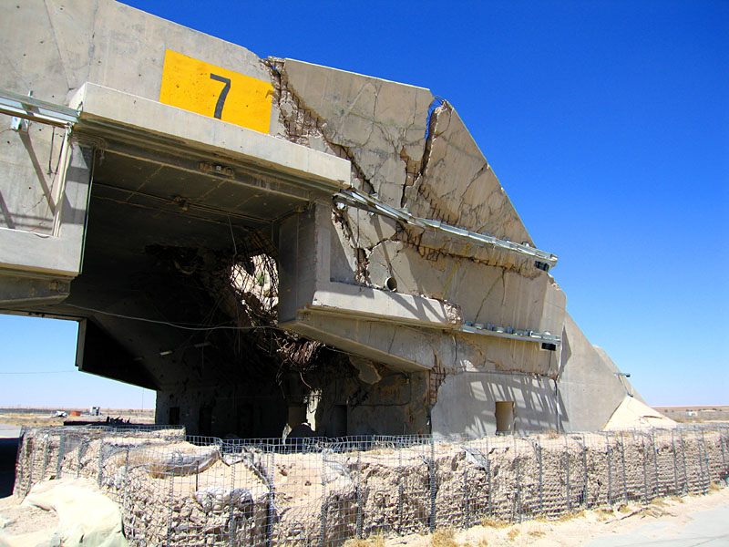 Bombed hangar at Ali Al Salem Air Base